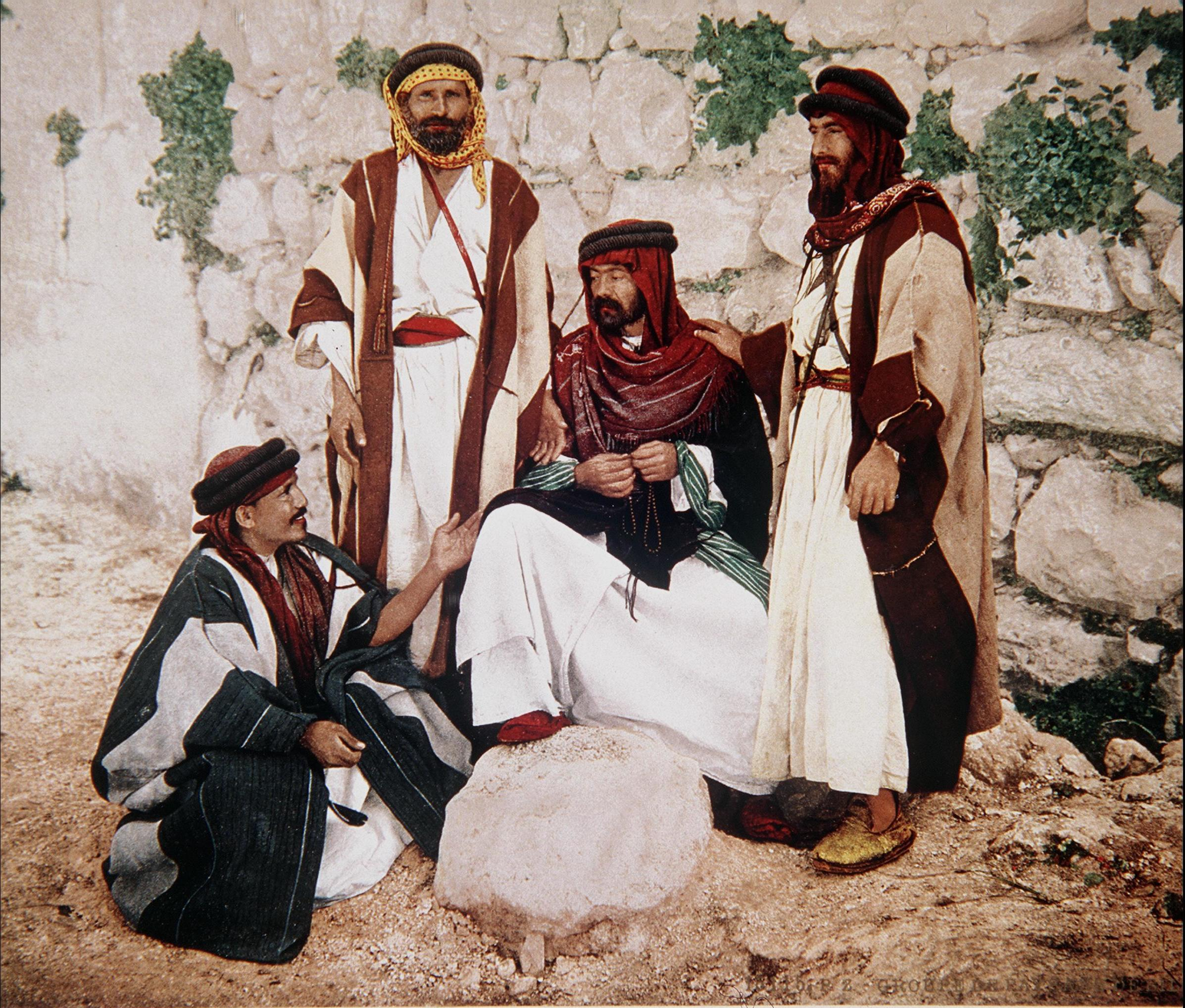 COLOR PHOTO FROM THE LATE 19TH CENTURY TAKEN BY FRENCH PHOTOGRAPHER, BONFILS, DEPICTING ARAB MEN IN JERUSALEM ENGAGED IN A FRIENDLY CONVERSATION. צילום צבע מהמאה ה19 של הצלם הצרפתי בונפיס. בצילום, שיחת רעים בין גברים ערביים בירושלים.